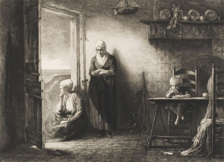 "Anxious Moments (Na de Storm)" of Leopold Lowenstein, ca. 1880, after "Na de Storm" of Jozef Israëls, 1858, Stedelijk Museum